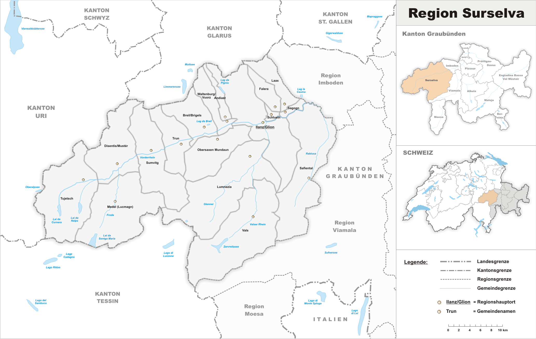 Municipalities in the district of Surselva